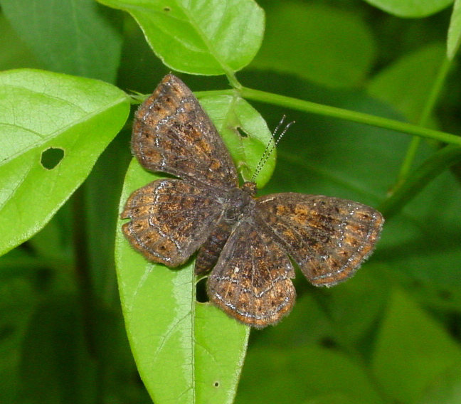 Northern Metalmark B3, Searcy Co, AR, 6-8-07